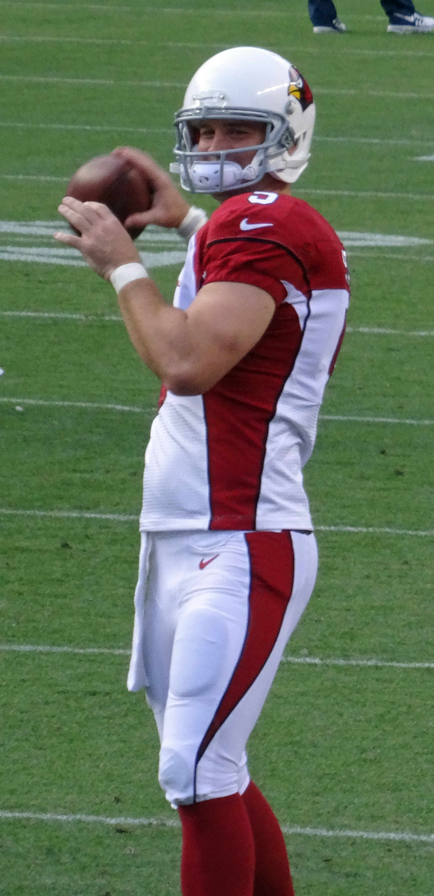 Drew Stanton, a player on the National Football League.